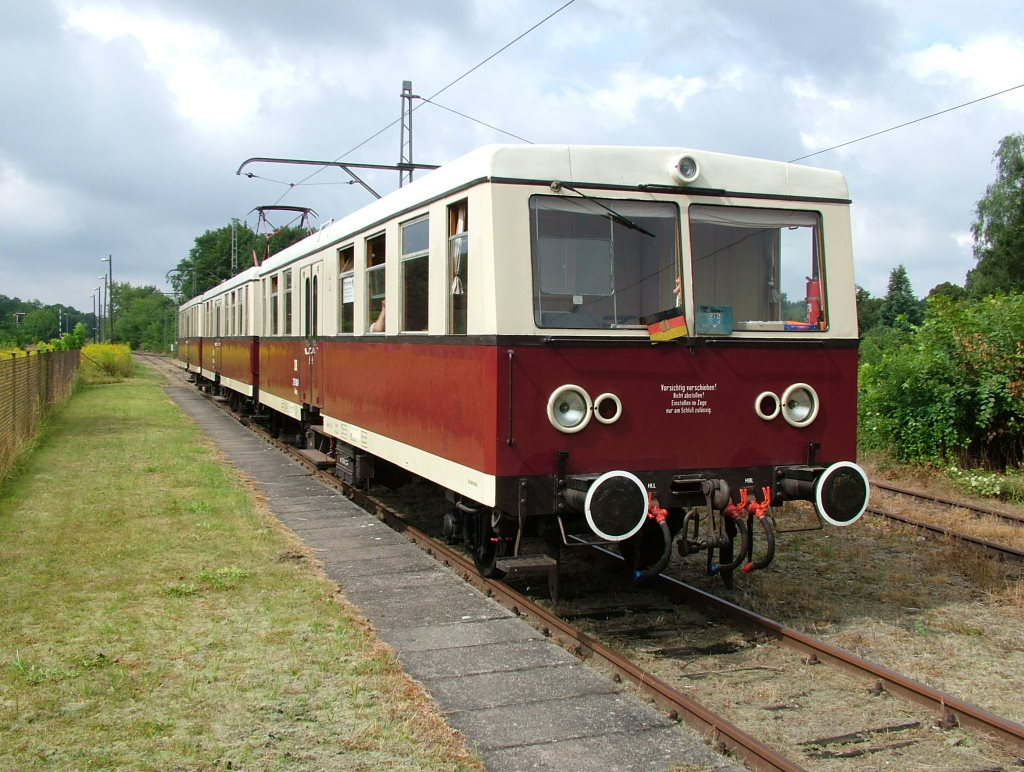 Train of the Buckower Kleinbahn in Muencheberg/Mark (near Berlin, Germany), 2004-08-14